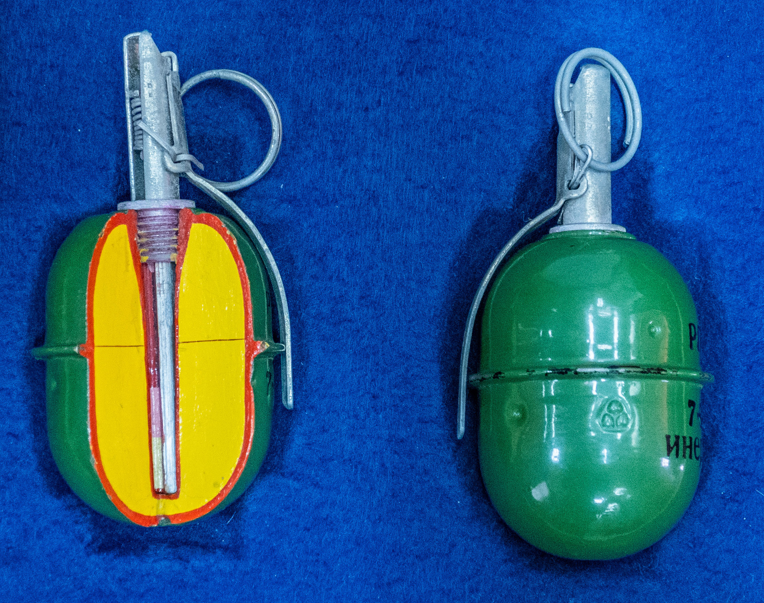 RGD-5 hand grenade. DOSAAF Museum, Minsk, Belarus